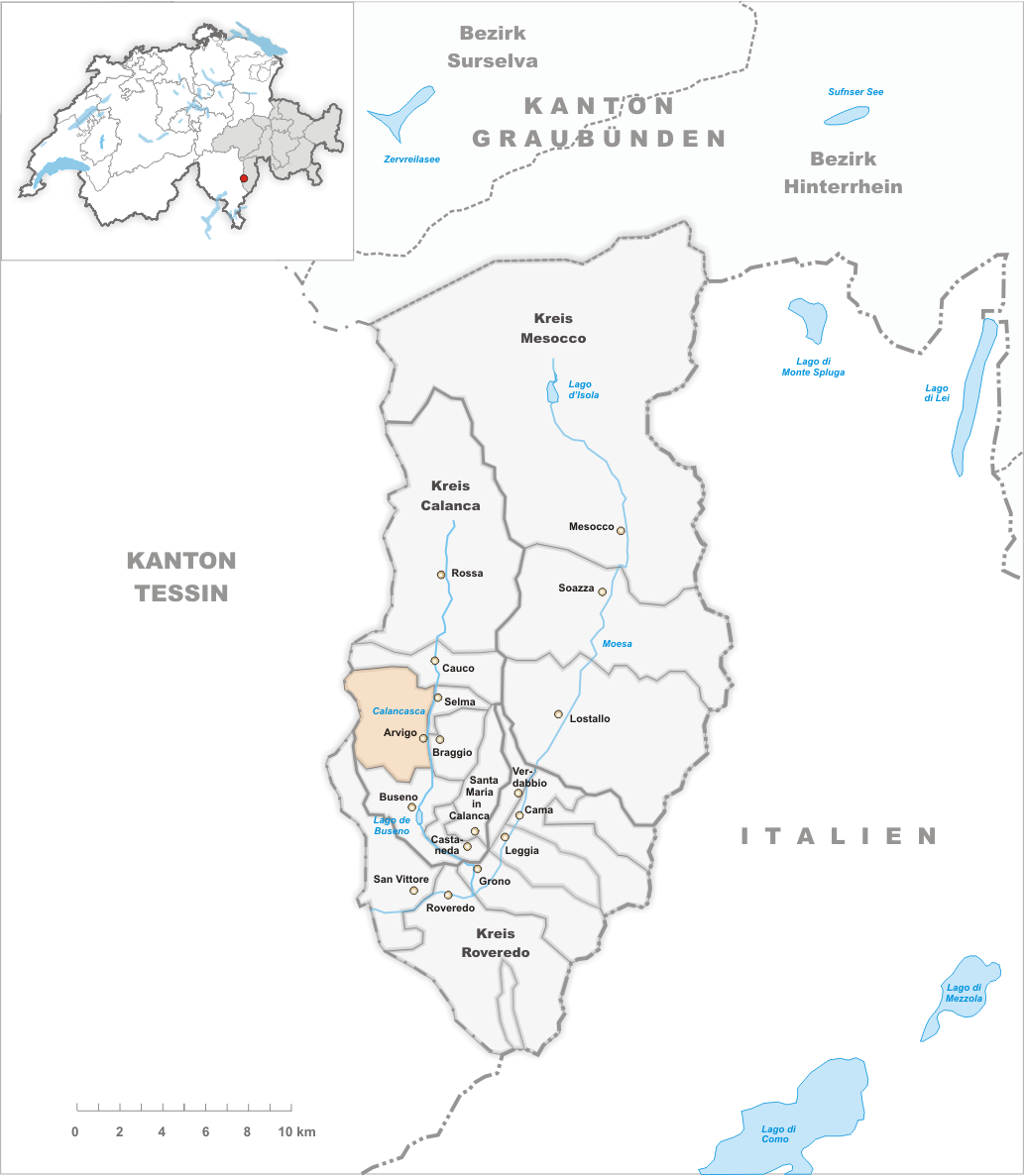 Municipality Arvigo